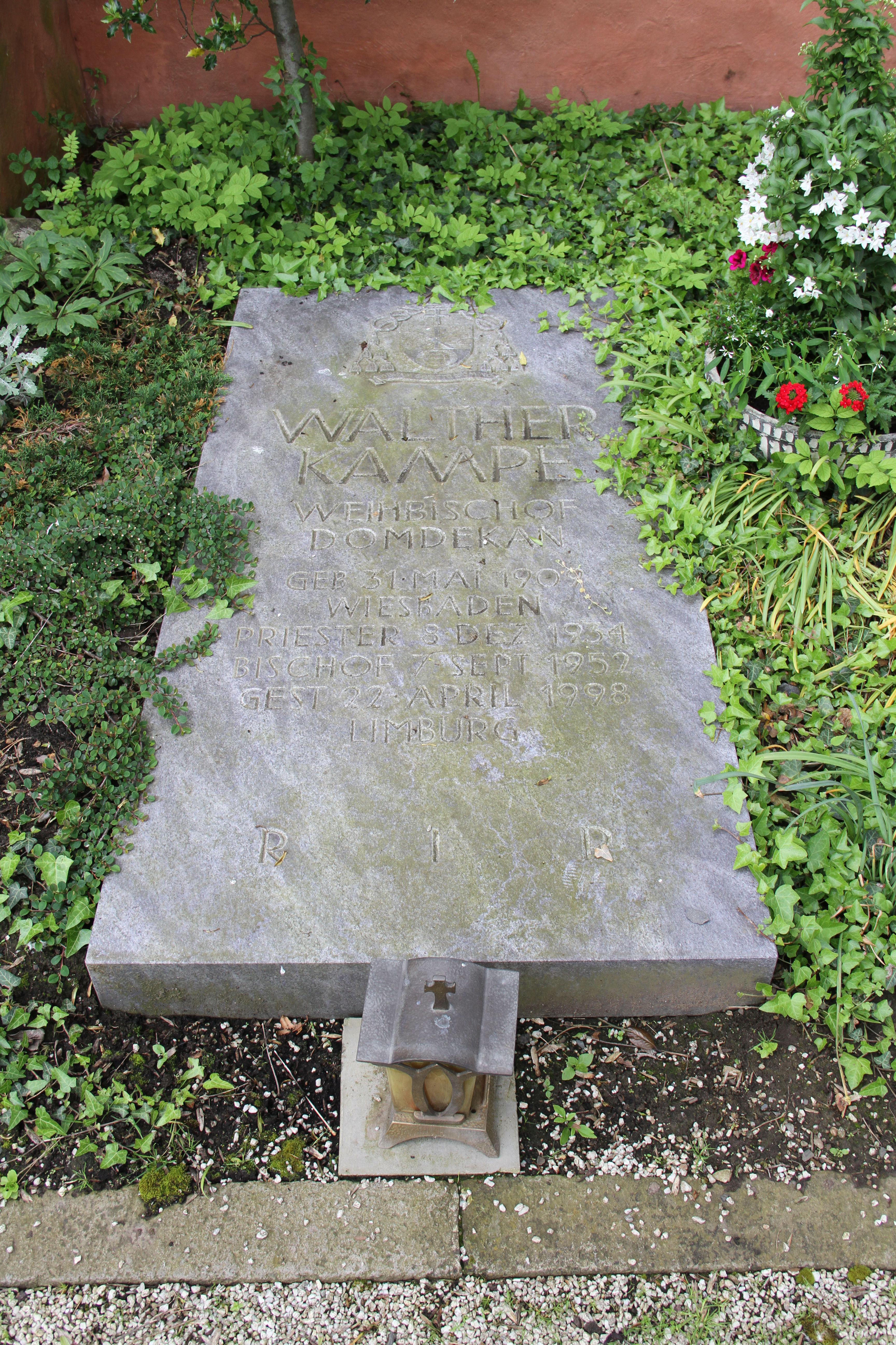 Grablege der Domherren on the former cemetary next to the Limburg Cathedral